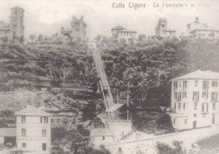 Celle Ligure, funicular